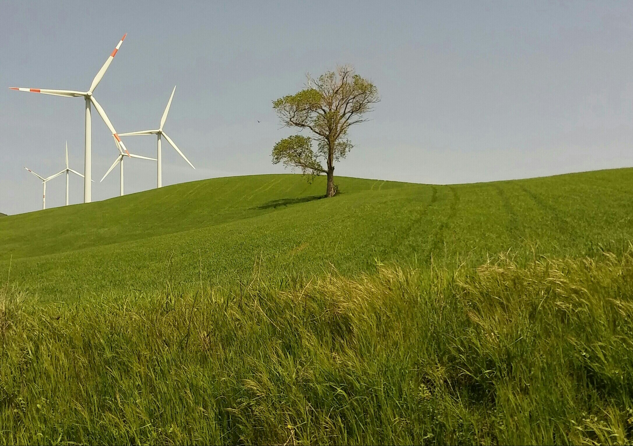 Countryside around Ginestra degli Schiavoni, Italy